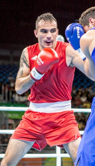 Day 3 at the 2016 Summer Olympics. Boxing 75 kg. Round of 32, Zoltán Harcsa (HUN) vs Arslanbek Achilov (TKM)